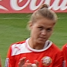 Belarus women's national association football team in the away match of 2015 FIFA Women's World Cup qualification – UEFA Group 6 against Turkey on September 17, 2014